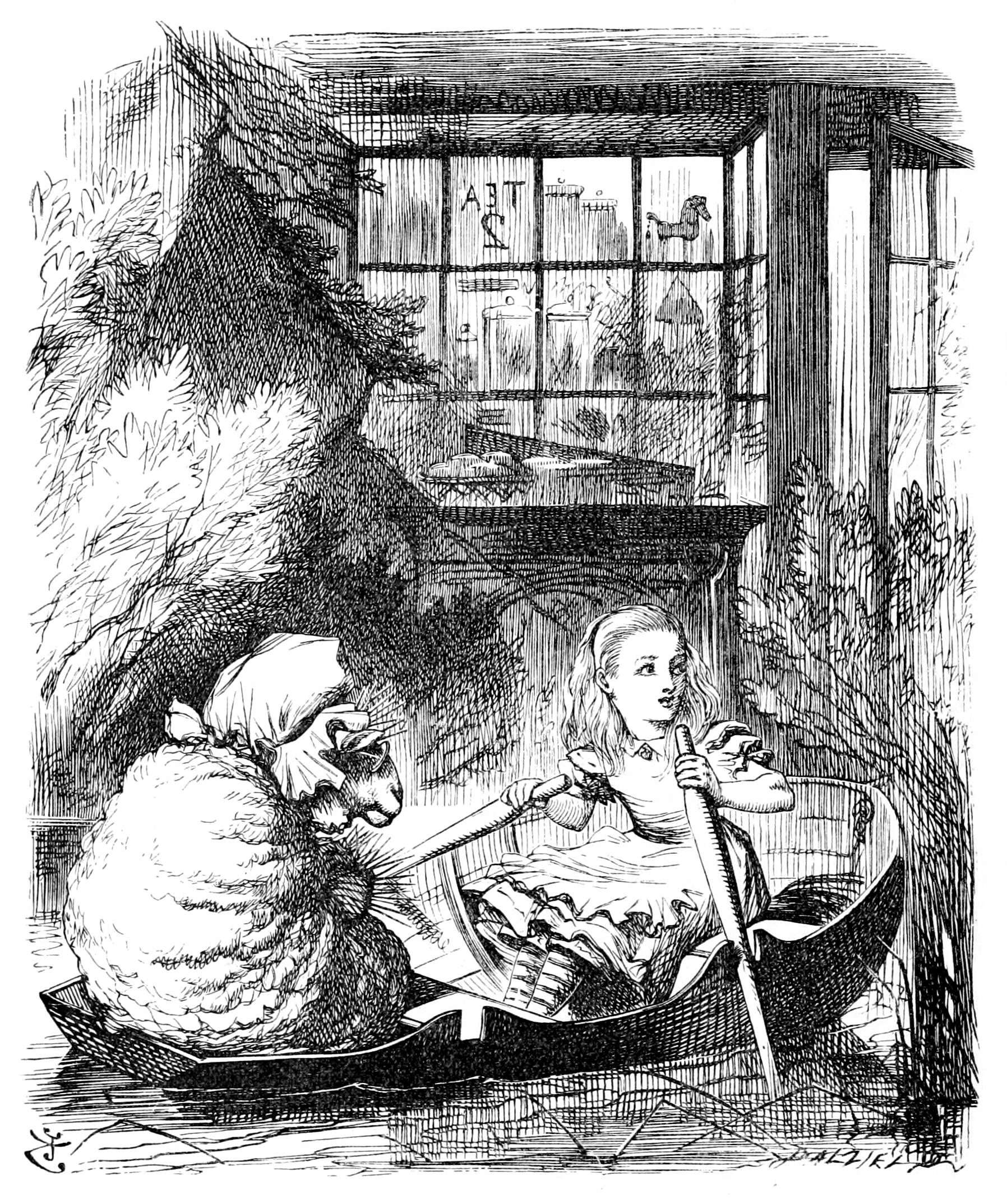 Alice Rows the Sheep. Illustration by Sir John Tenniel to "Through the Looking-Glass and What Alice Found There", chapter "Wool and Water"